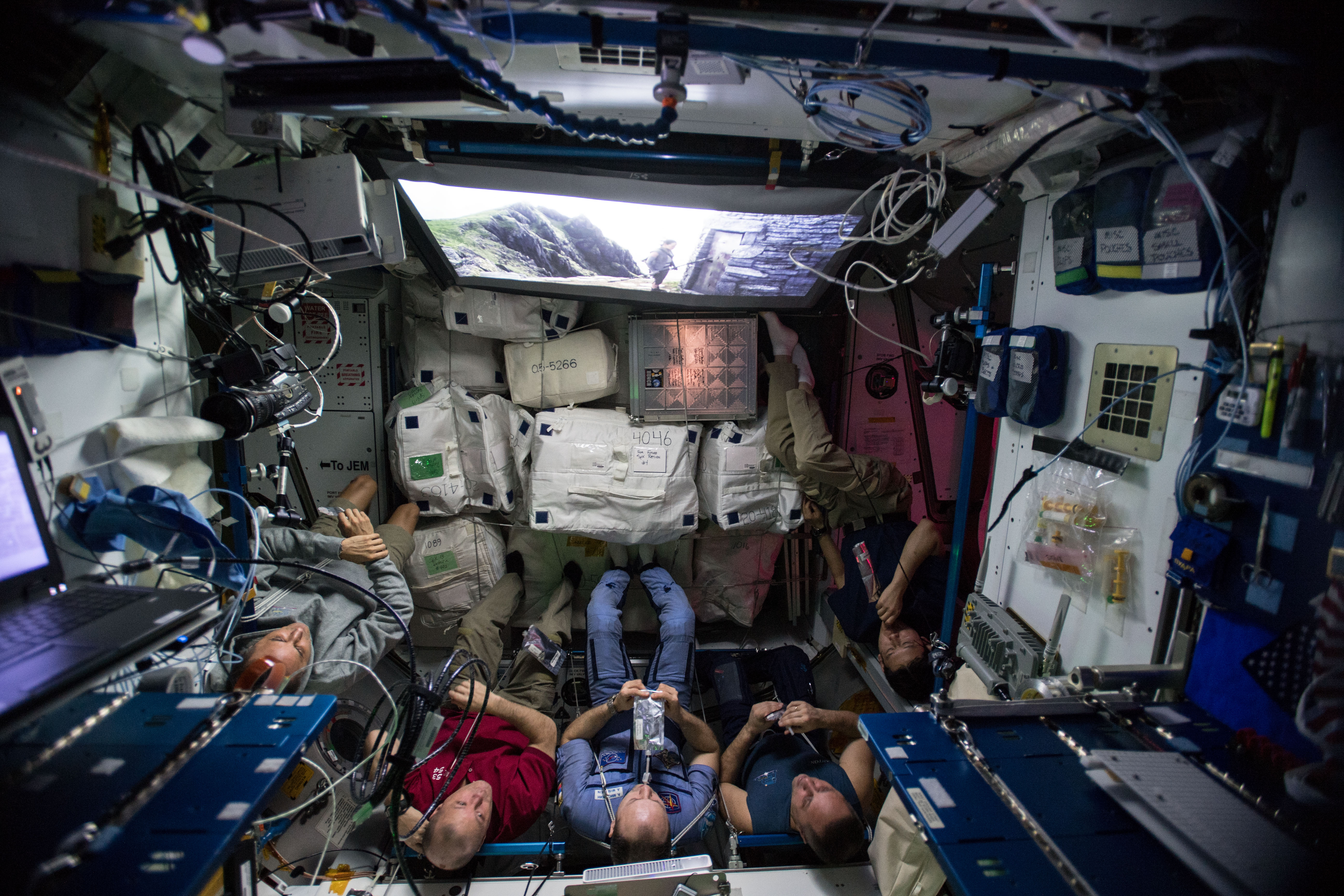 The Expedition 54 crew aboard the International Space Station gathers in the Unity Harmony module for an out-of-this-world screening of the latest chapter of the Star Wars saga, The Last Jedi.